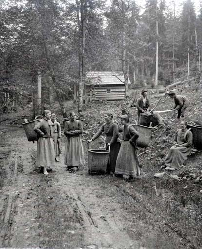 Grass gathering (Šumava - Böhmerwald)